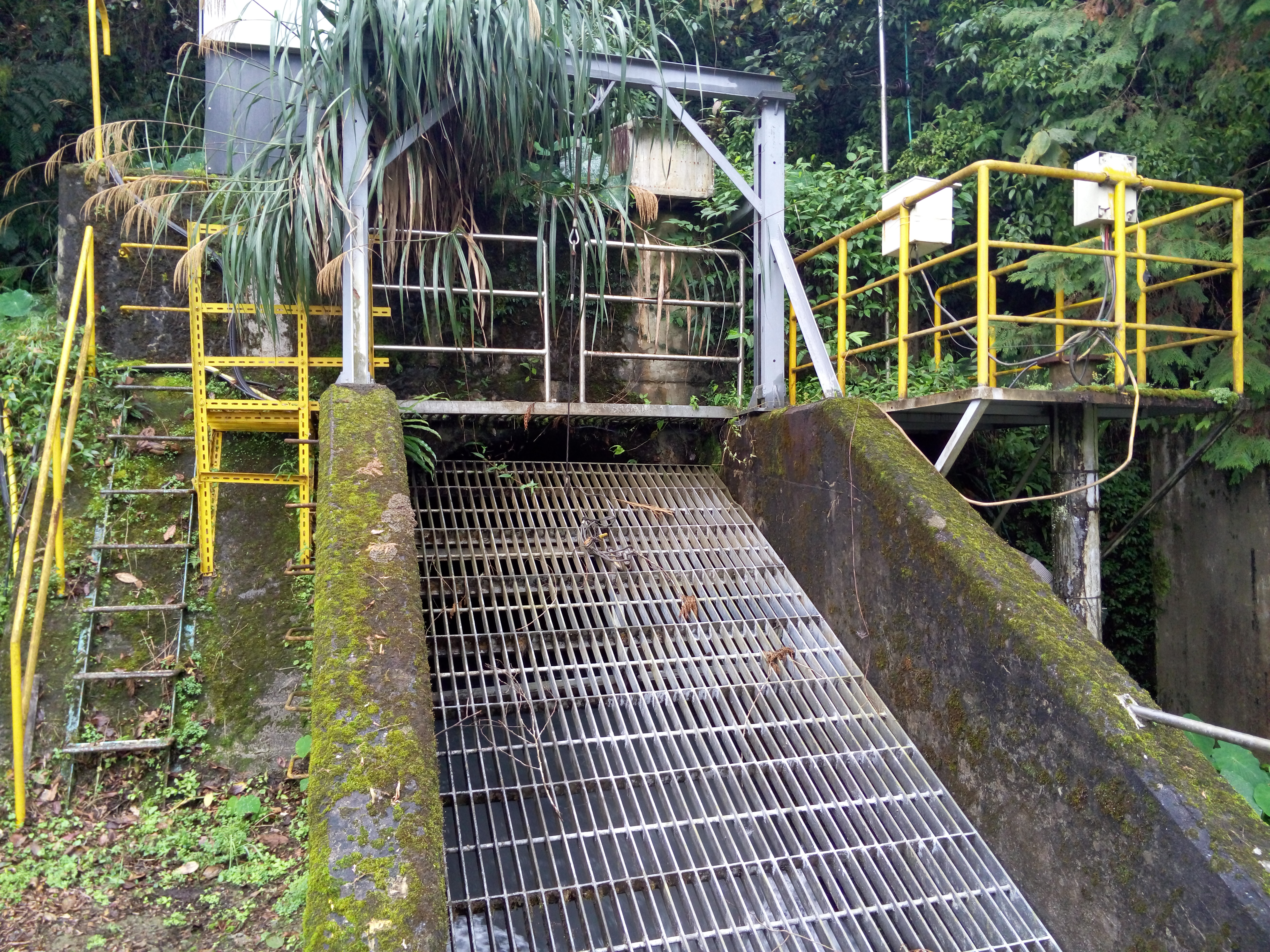 Cooperative water diversion tunnel, the tunnel brought together five dams on the odd, laishan district, linxi, cooperative dam, dam, Cypress Creek dam long dam, dams block mountain streams of Longxi water injection adjusting in the pool.